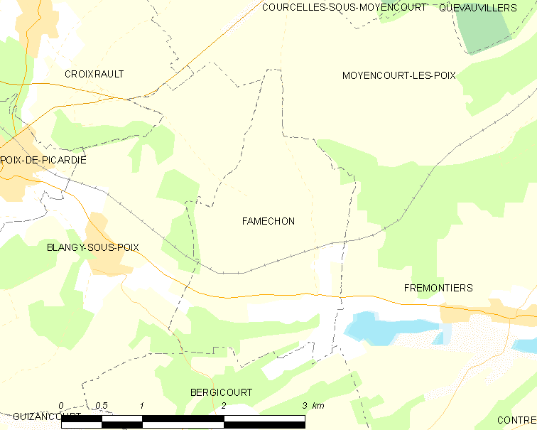 Map of French municipality Famechon